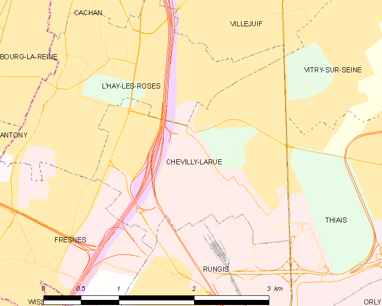 Map of French municipality Chevilly-Larue